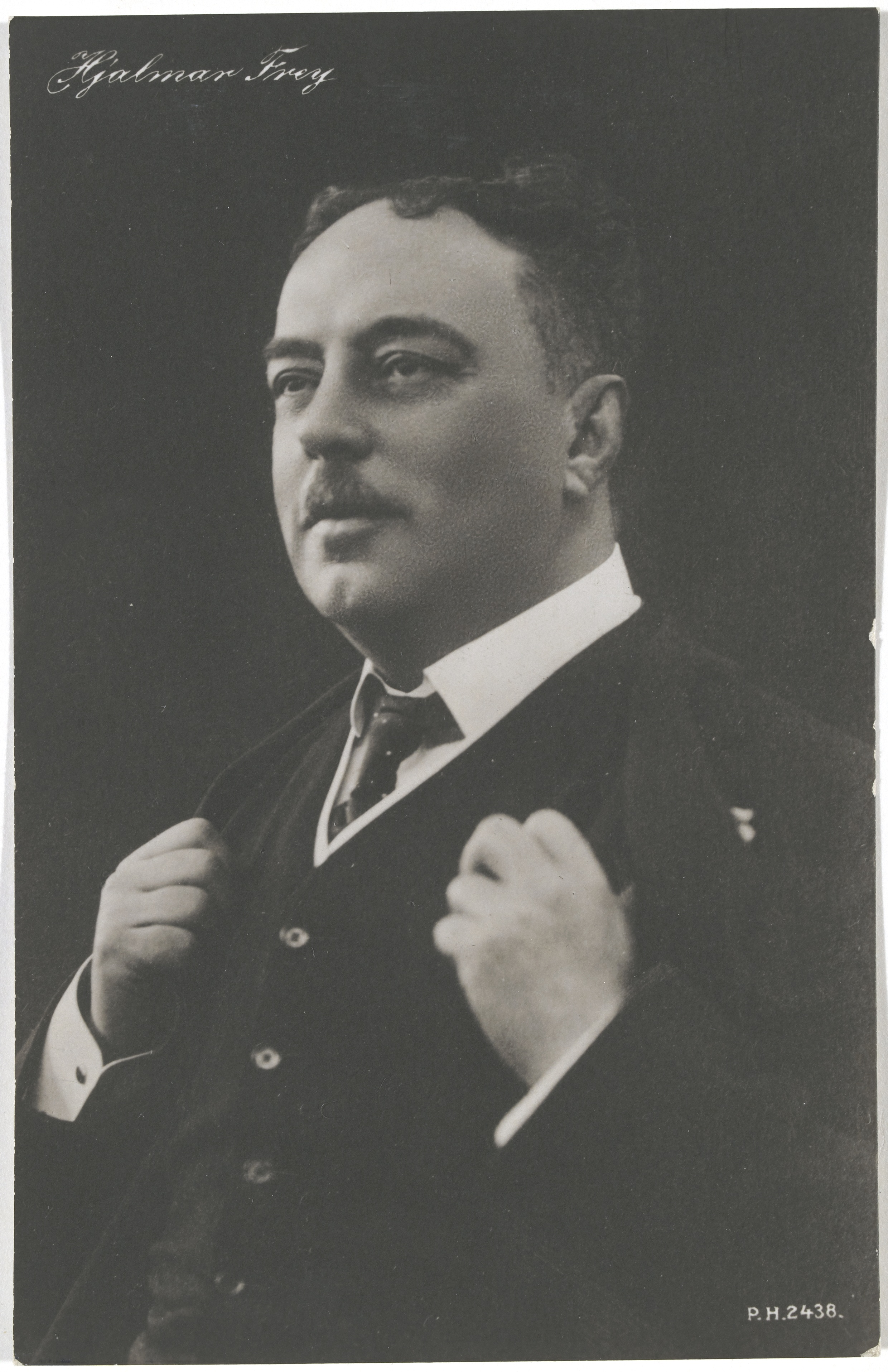 The Finnish singer Hjalmar Frey (1856-1913), picture from early 1900s